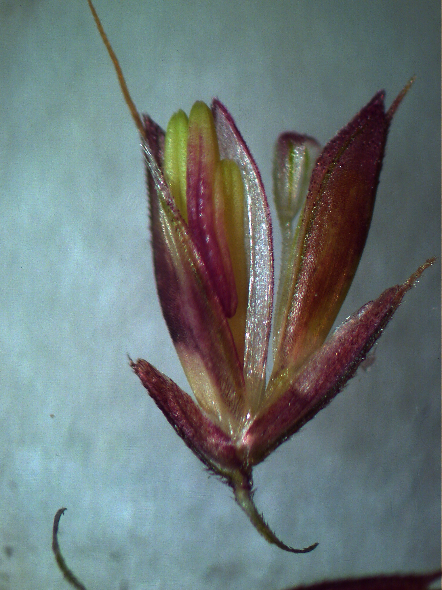 Spikelets are greenish brown, blunt at their apex and have 3-4 awned florets.